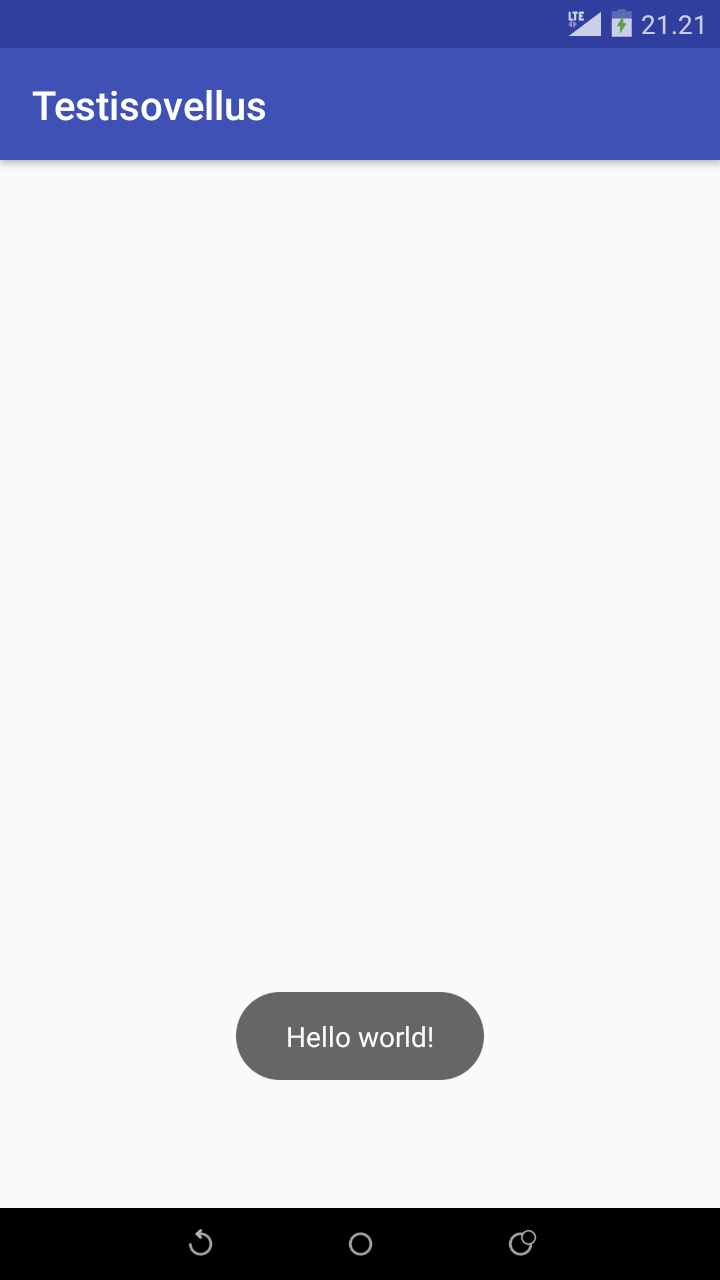 Toast "Hello world" in "Testisovellus" named app.